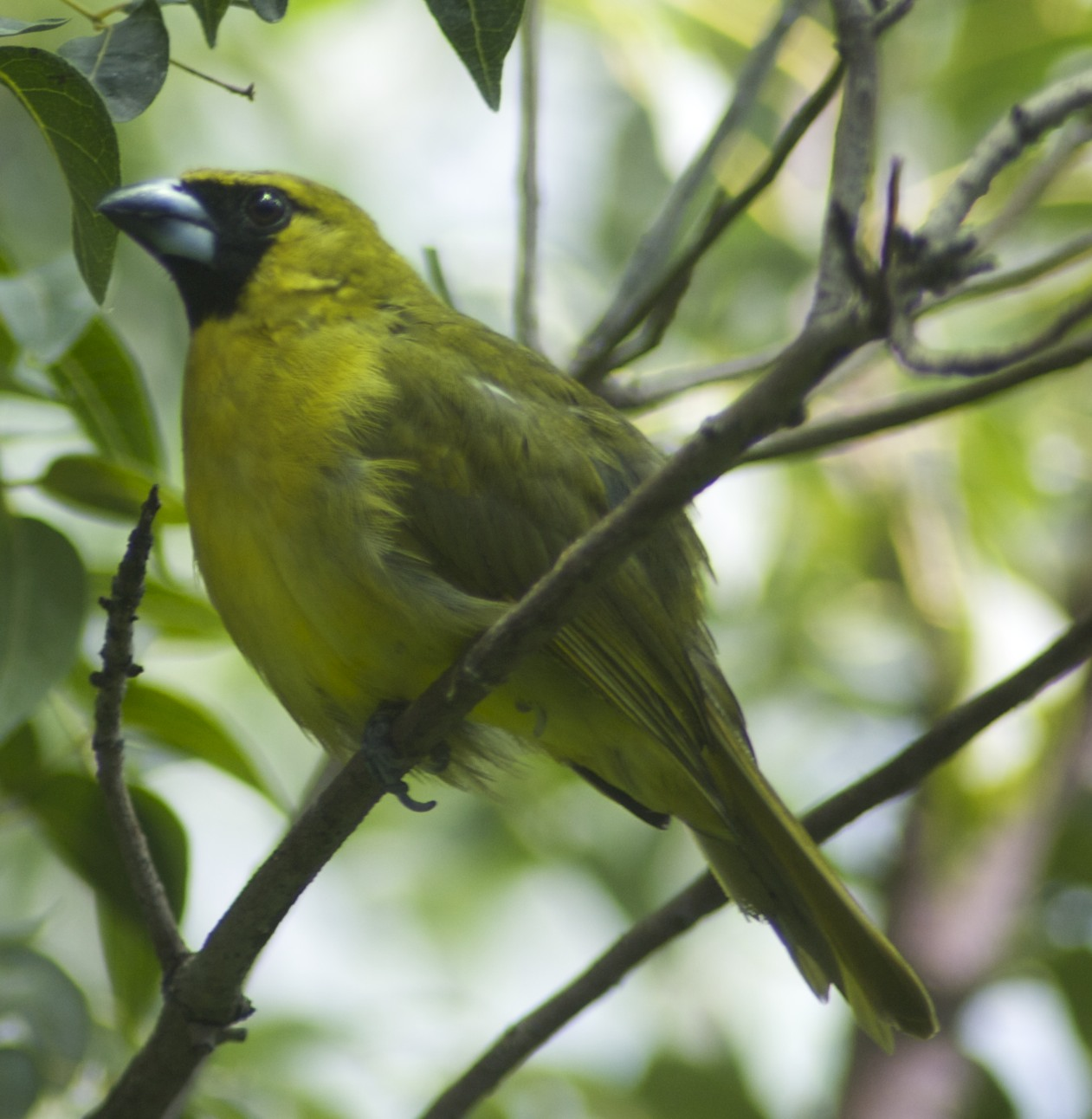 Caryothraustes poliogaster Black-faced Grossbeak